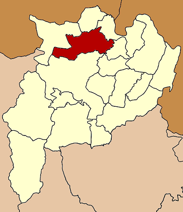 Map of the Chiang Rai province, Thailand, highlighting the Mae Chan district.